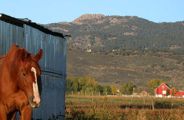 Horsetooth Mountain seen from Fort Collins, Colorado (taken Oct. 7, 2004)